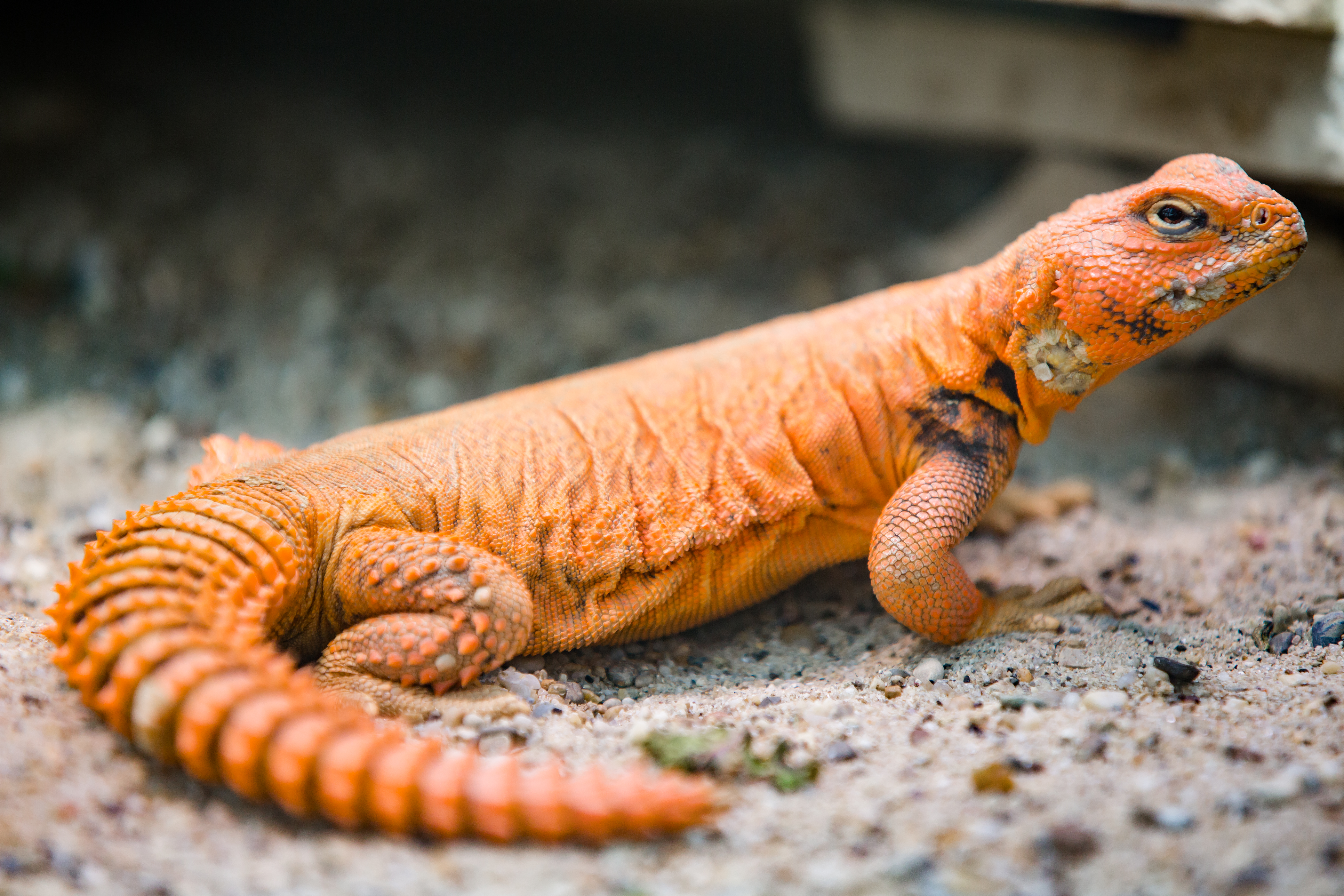 Uromastyx geyri - Blumengärten Hirschstetten in Vienna, Austria.